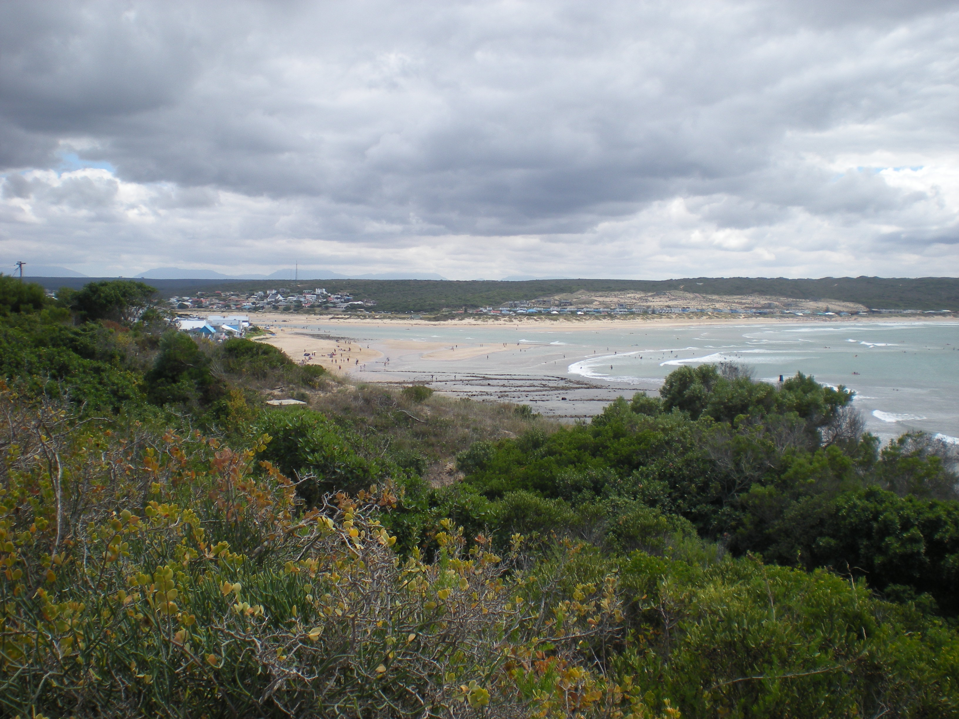 Stilbaai (Western Cape), viewed from the lookout above the harbour in Stilbaai West. Goukou river mouth visible.